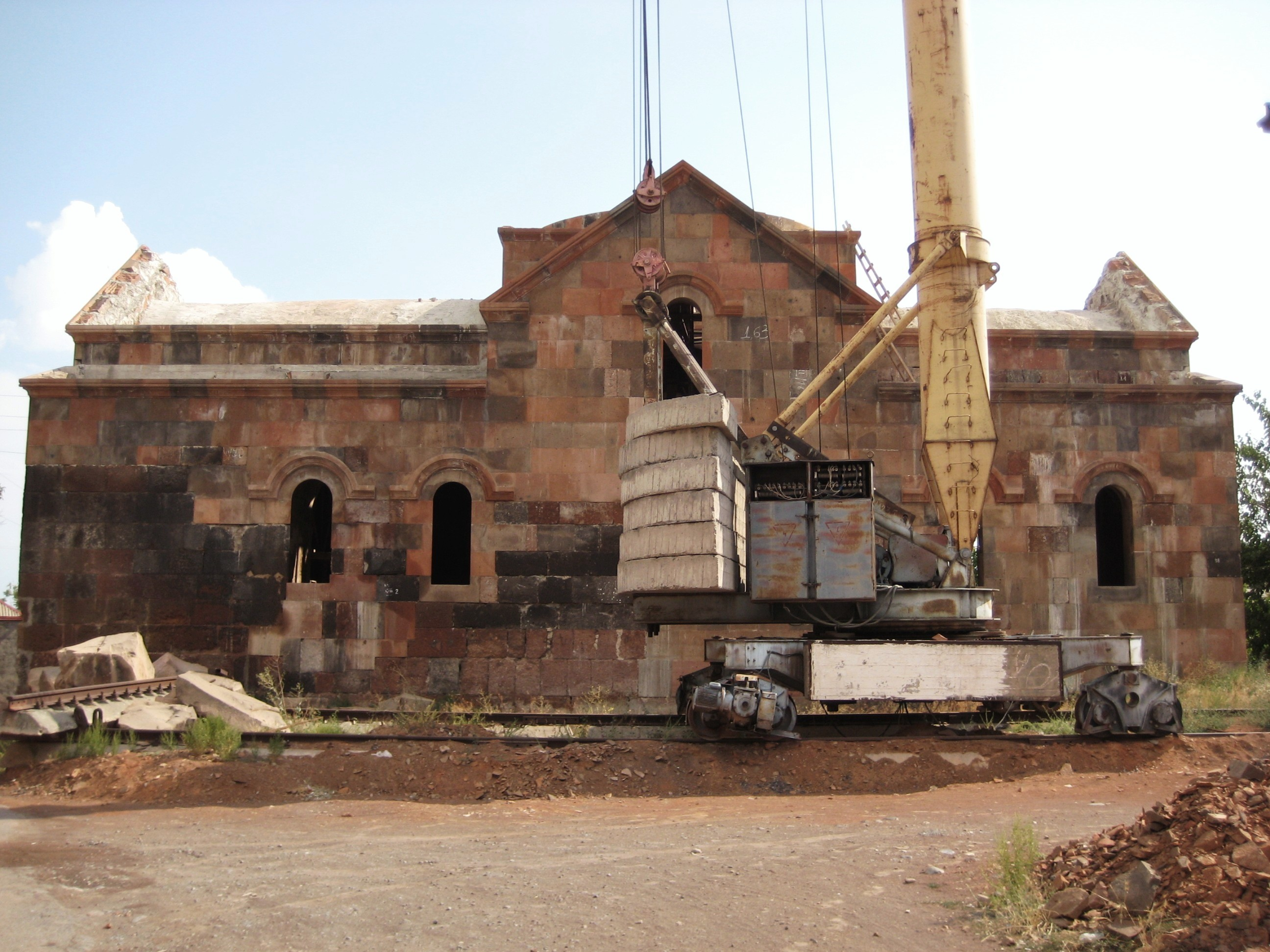 S. Hovhannes Church of Voskevaz 7th - 12th c. 87/21